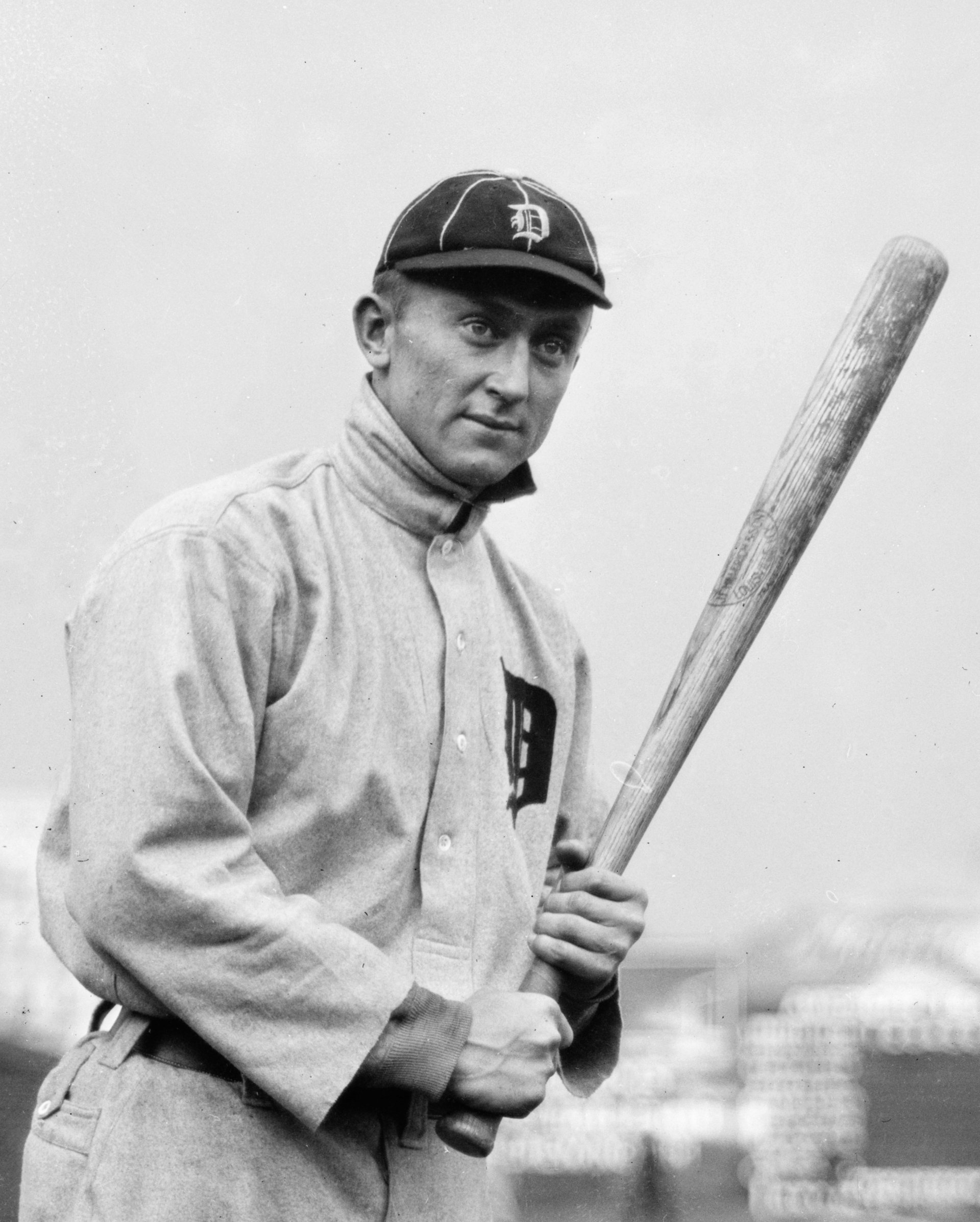 Ty Cobb, Detroit, 1910